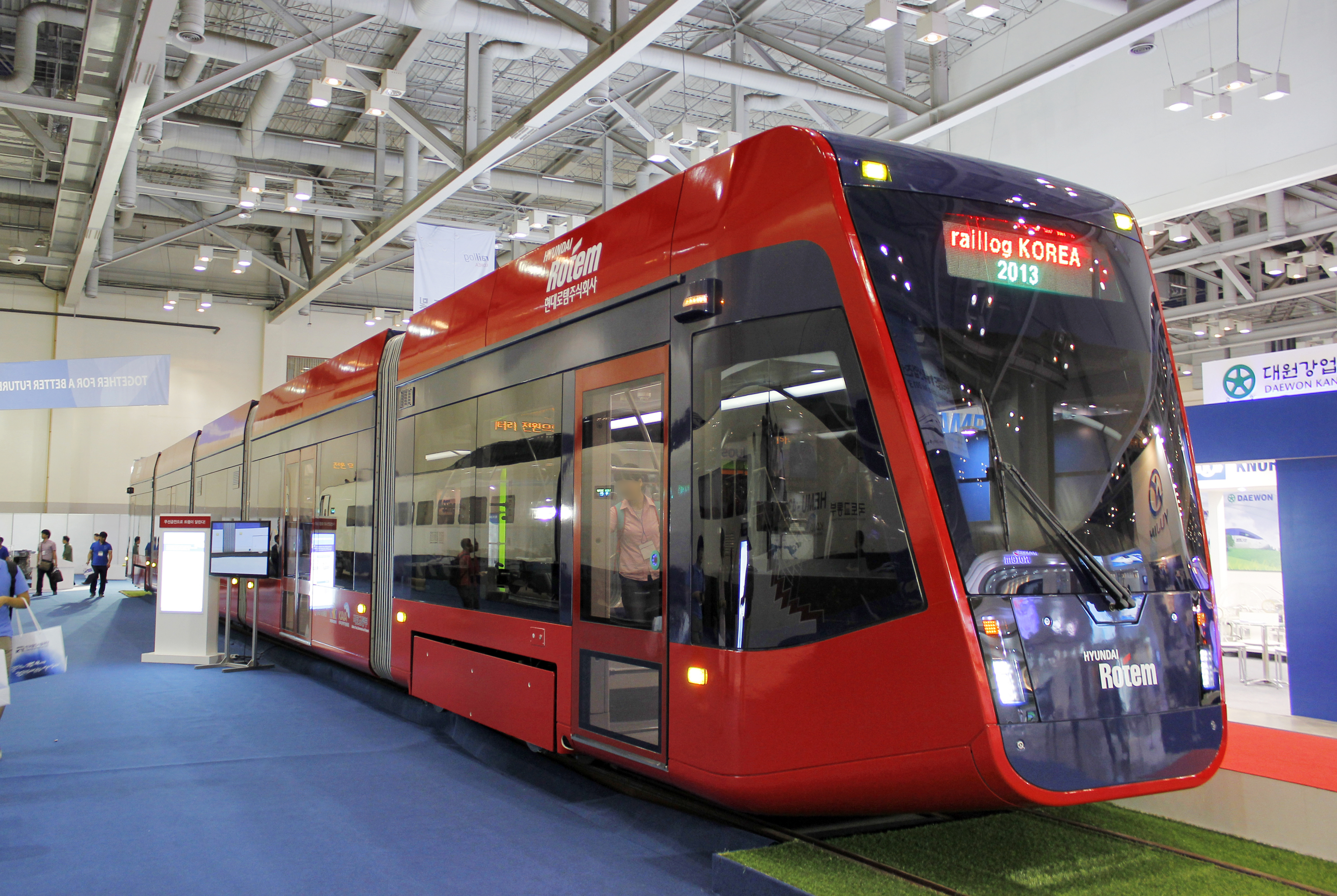 @Korea Railway&Logistics fair 2013